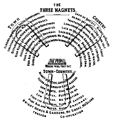 Ebenezer Howard's "Three Magnets" diagram, 1898 Copyright status This was published in the book Tomorrow: A Peaceful Path to Real Reform in 1898, and so is now out of copyright. The text The text reads: THE THREE MAGNETS THE PEOPLE Where will they go? Town Closing out of nature. Social opportunity. Isolation of crowds. Places of amusement. Distance from work. High money wages. High rents & prices. Chances of employment. Excessive hours. Army of unemployed. Fogs and droughts. Costly drainage. Foul air. Murky sky. Well-lit streets. Slums & gin palaces. Palatial edifices. Country Lack of society. Beauty of nature. Hands out of work. Land lying idle. Trespassers beware. Wood, meadow, forest. Long hours, low wages. Fresh air. Low rents. Lack of drainage. Abundance of water. Lack of amusement. Bright sunshine. No public spirit. Need for reform. Crowded dwellings. Deserted villages. Town-Country Beauty of nature. Social opportunity. Fields and parks of easy access. Low rents, high wages. Low rates, plenty to do. Low prices, no sweating. Field for enterprise, flow of capital. Pure air and water, good drainage. Bright homes & gardens, no smoke, no slums. Freedom. Co-operation.